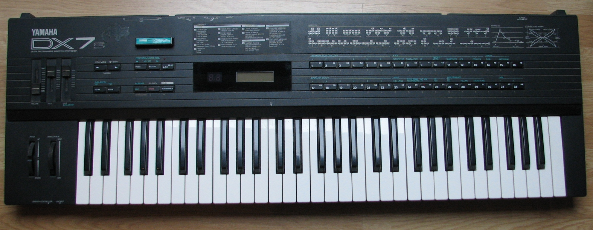 Yamaha Syntheziser DX7s